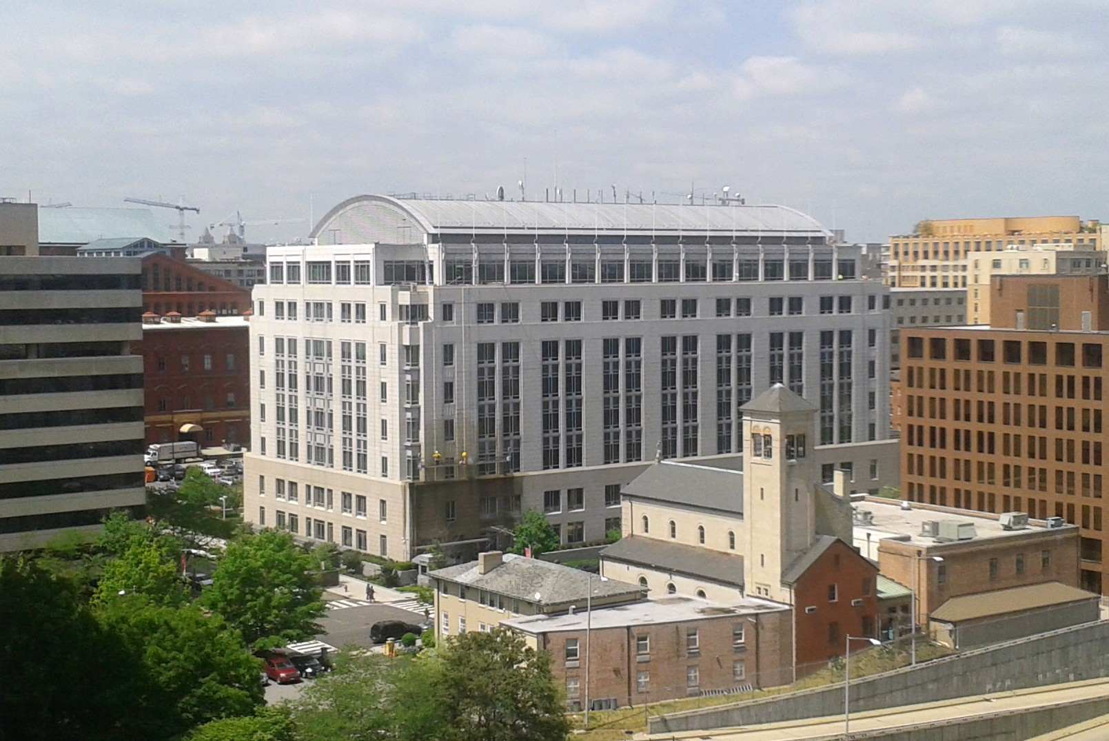 FBI Washington Field Office Building.